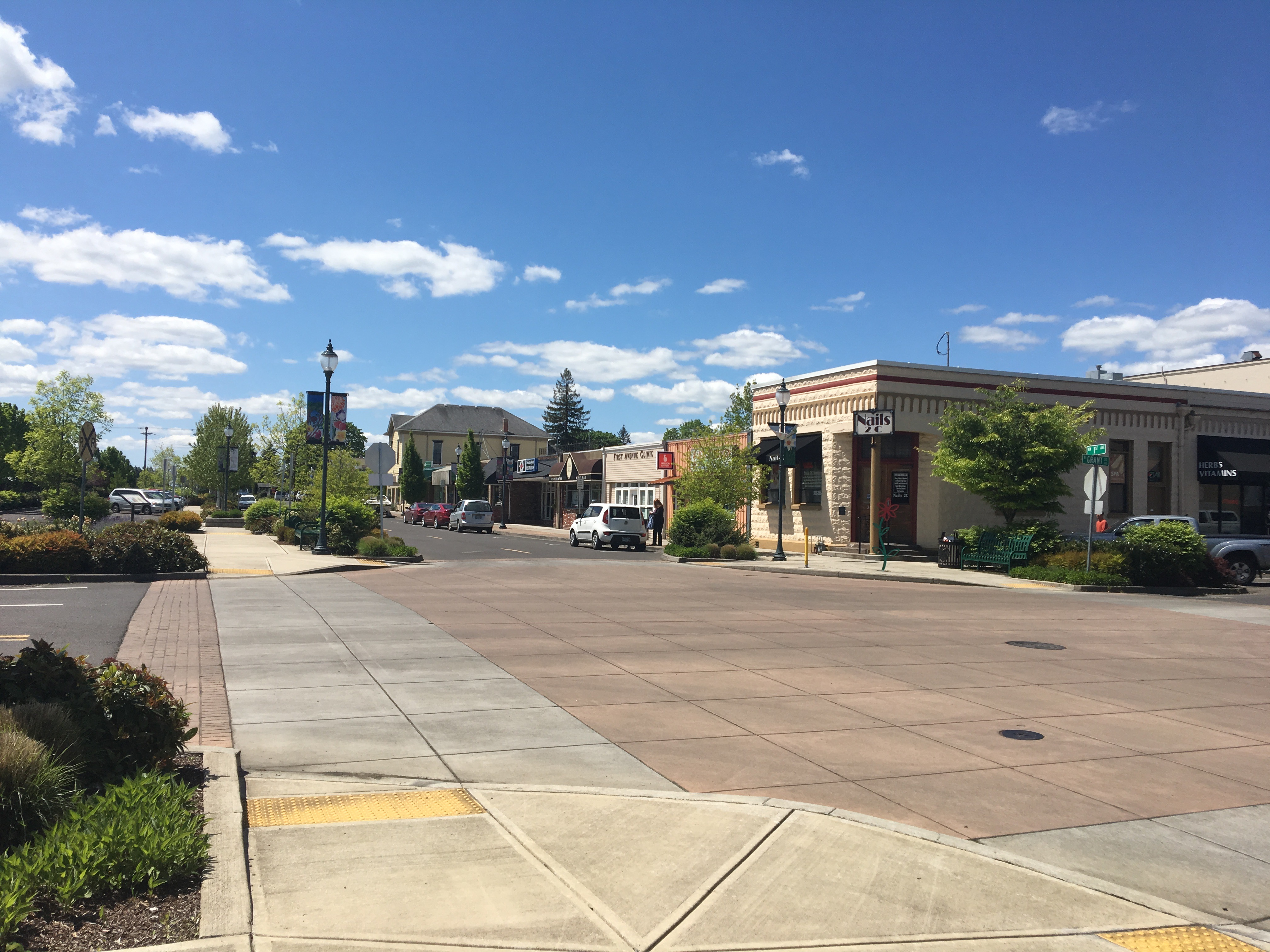 Canby, OR